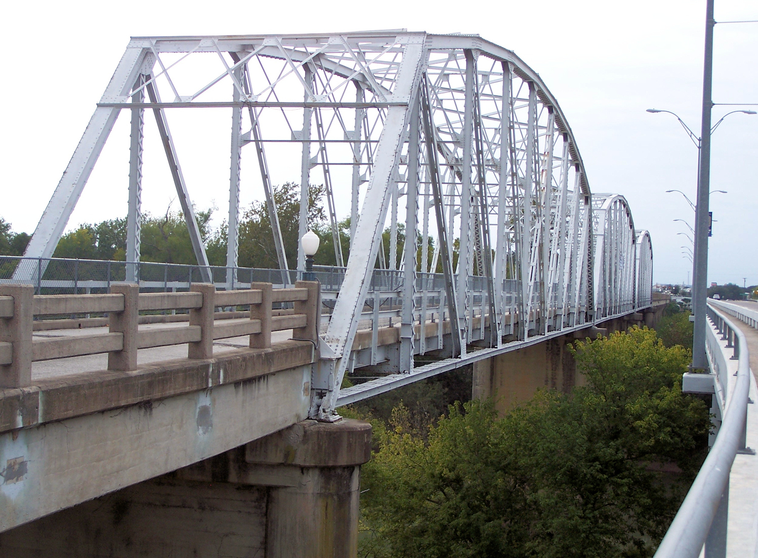 The Colorado River Bridge at Bastrop located in Bastrop, Texas, United States was built in 1923 to carry Texas State Highway 3-A (which became Texas State Highway 71) across the Colorado River. The bridge is one of the earliest uses of the Parker through truss design in Texas. The bridge was listed on the National Register of Historic Places on July 19, 1990 and is now a pedestrian bridge.